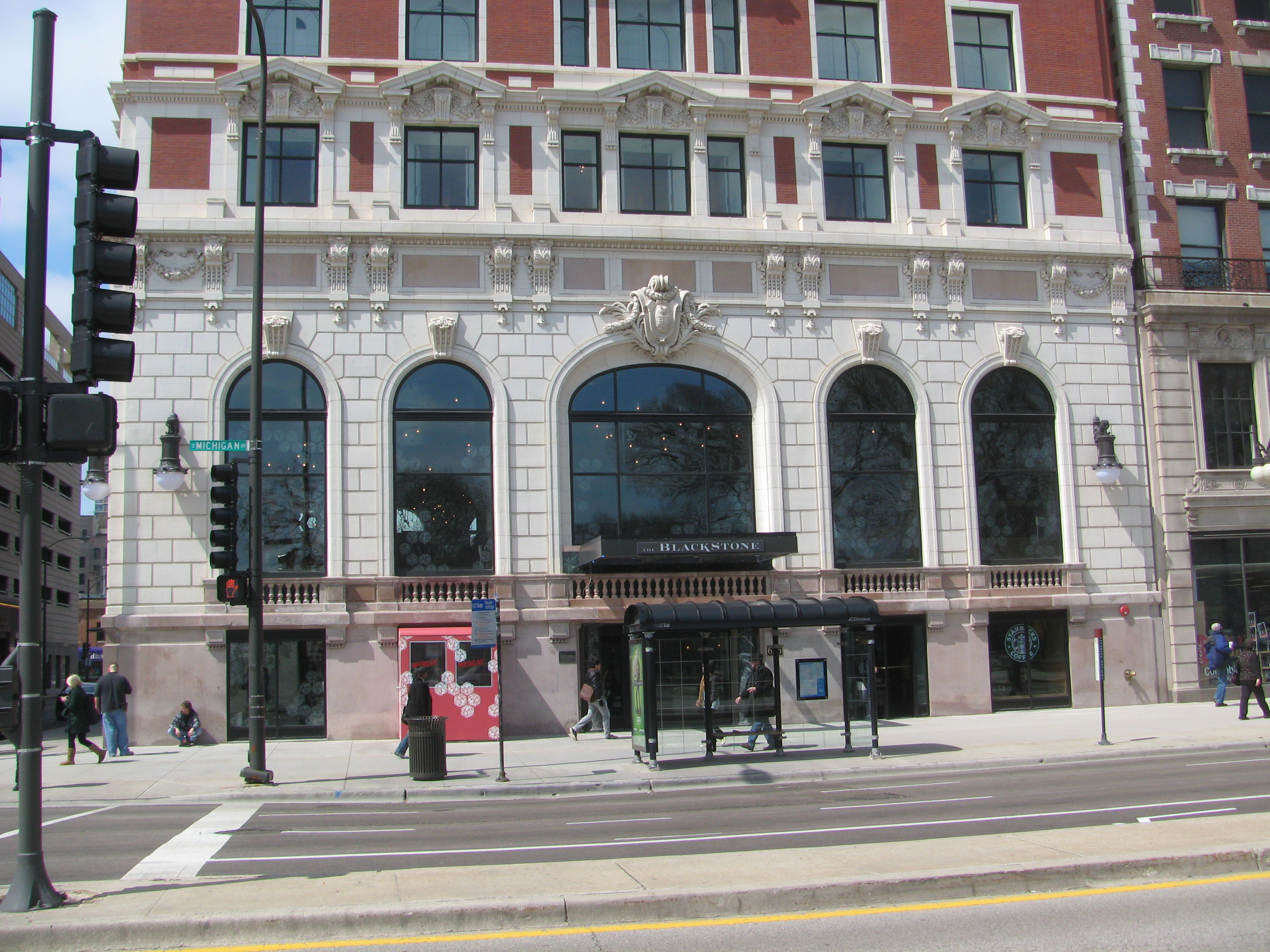 Blackstone Hotel Entrance